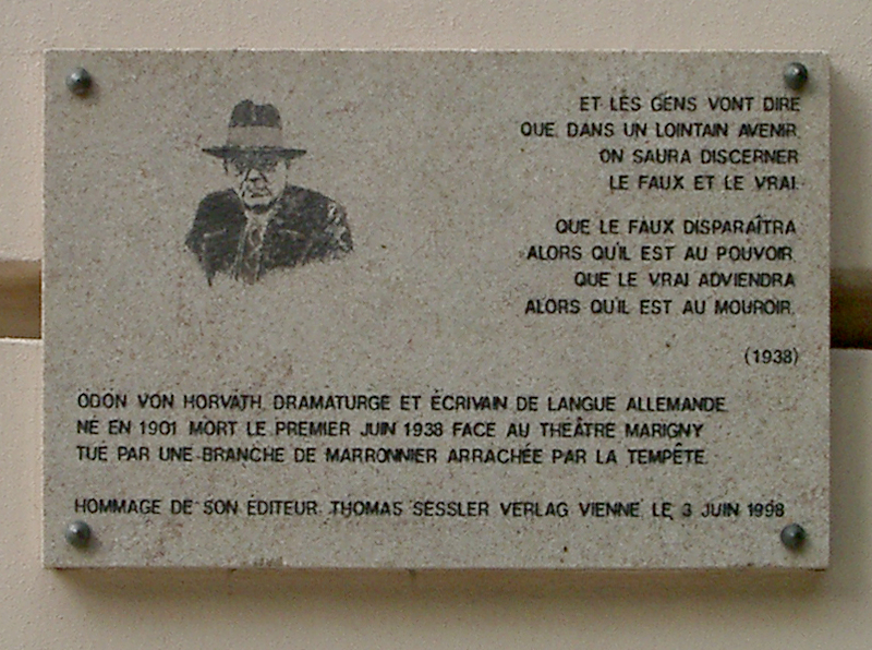 Plaque where Odon von Horvath was killed in Paris.